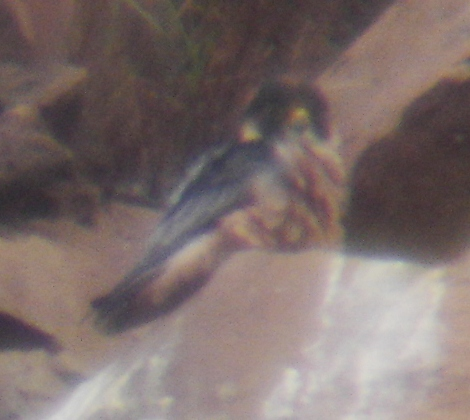 Doug Newman, photographed at Strydom Tunnel, South Africa